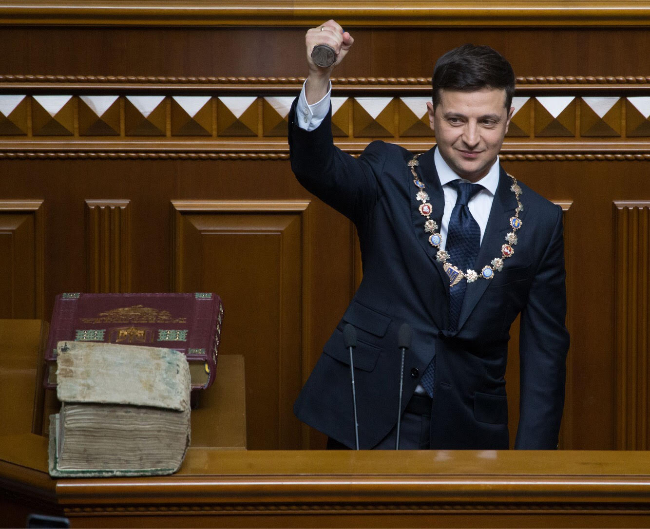 Volodymyr Zelensky presidential inauguration, 20th May 2019